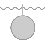 The image shows an underwater habitat type 3